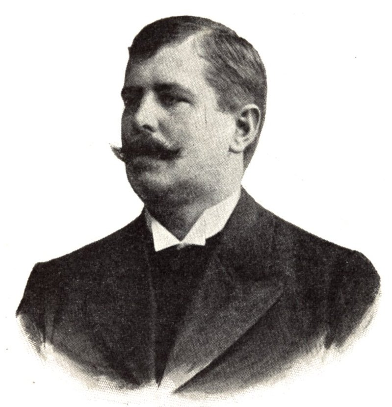 András Áchim L. (1871-1911), Hungarian politician